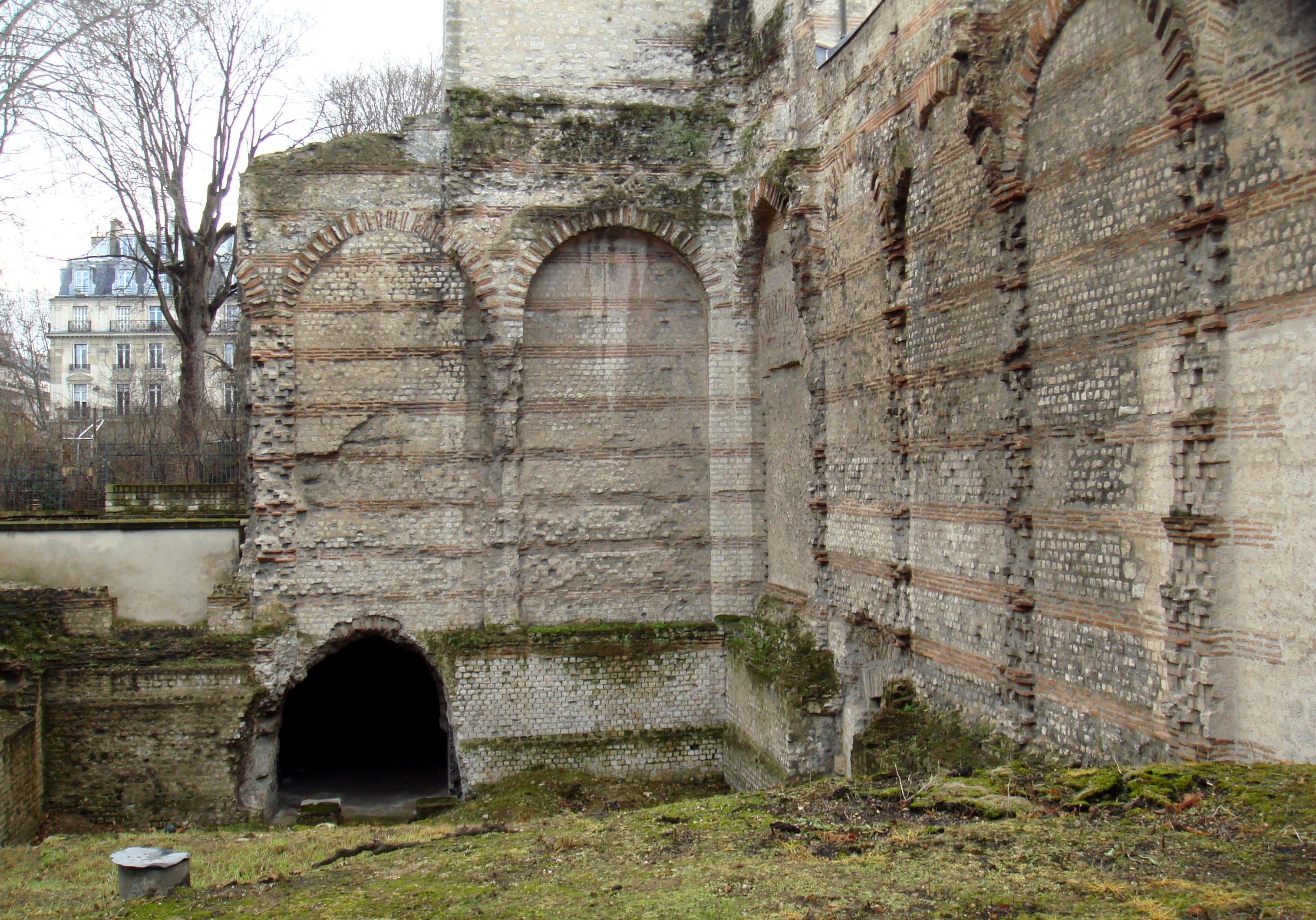 Roman_baths_in_the_Musee_de_Cluny